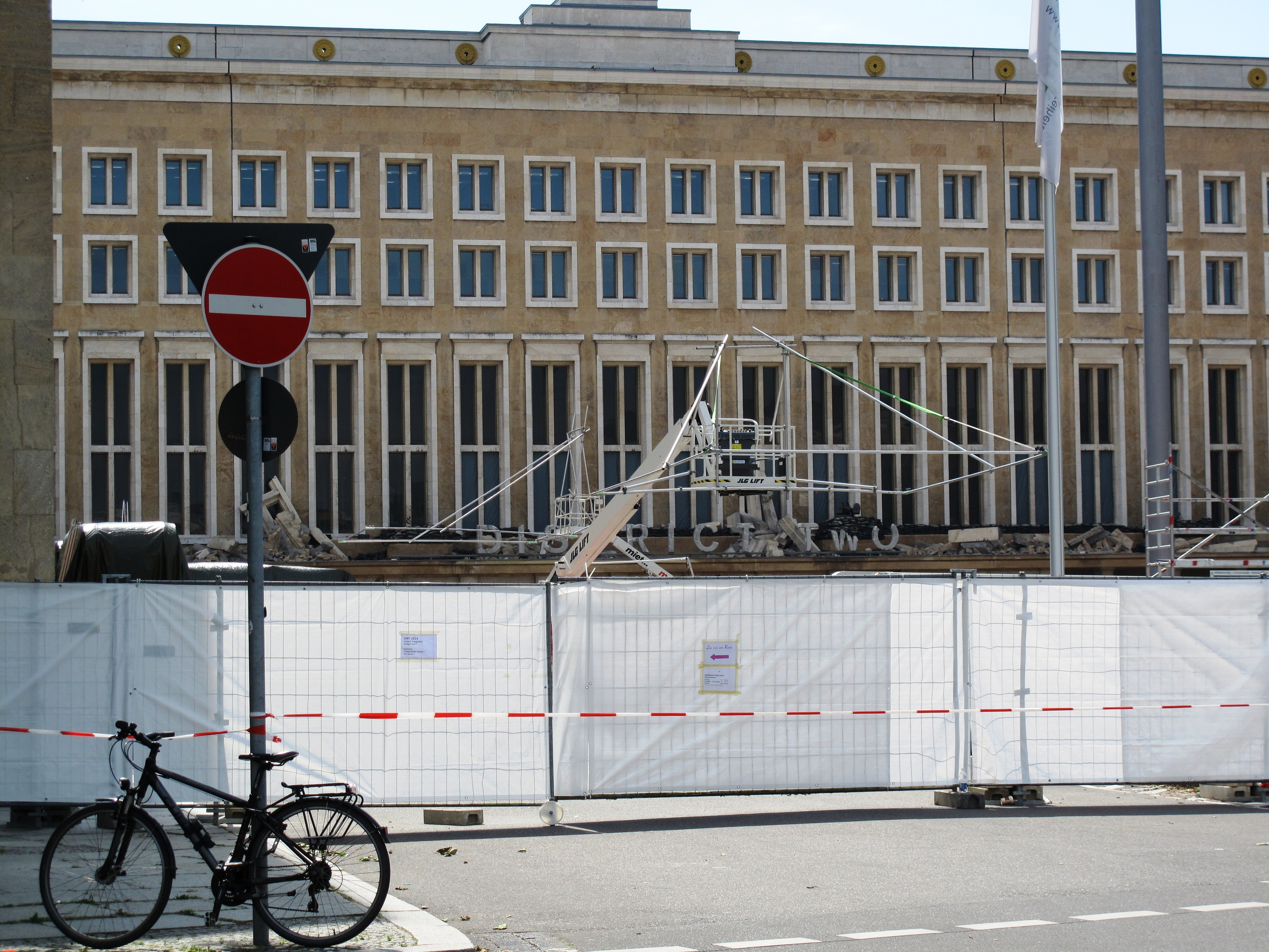 Listed entrance of the 2008 closed Berlin Tempelhof Airport during filming The Hunger Games: Mockingjay – Part 2 in May 2014. On the airport were shot scenes of the Panem-district 2. The despite the closure still existing lettering „ZENTRALFLUGHAFEN“ was replaced for the shooting by the lettering „DISTRICT TWO“.